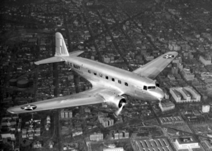 A U.S. Navy Douglas R2D-1 from Naval Air Station Anacostia in flight. The R2D was a Navy transport version of the Douglas DC-2 airliner. One R2D and four R2D-1s were built.